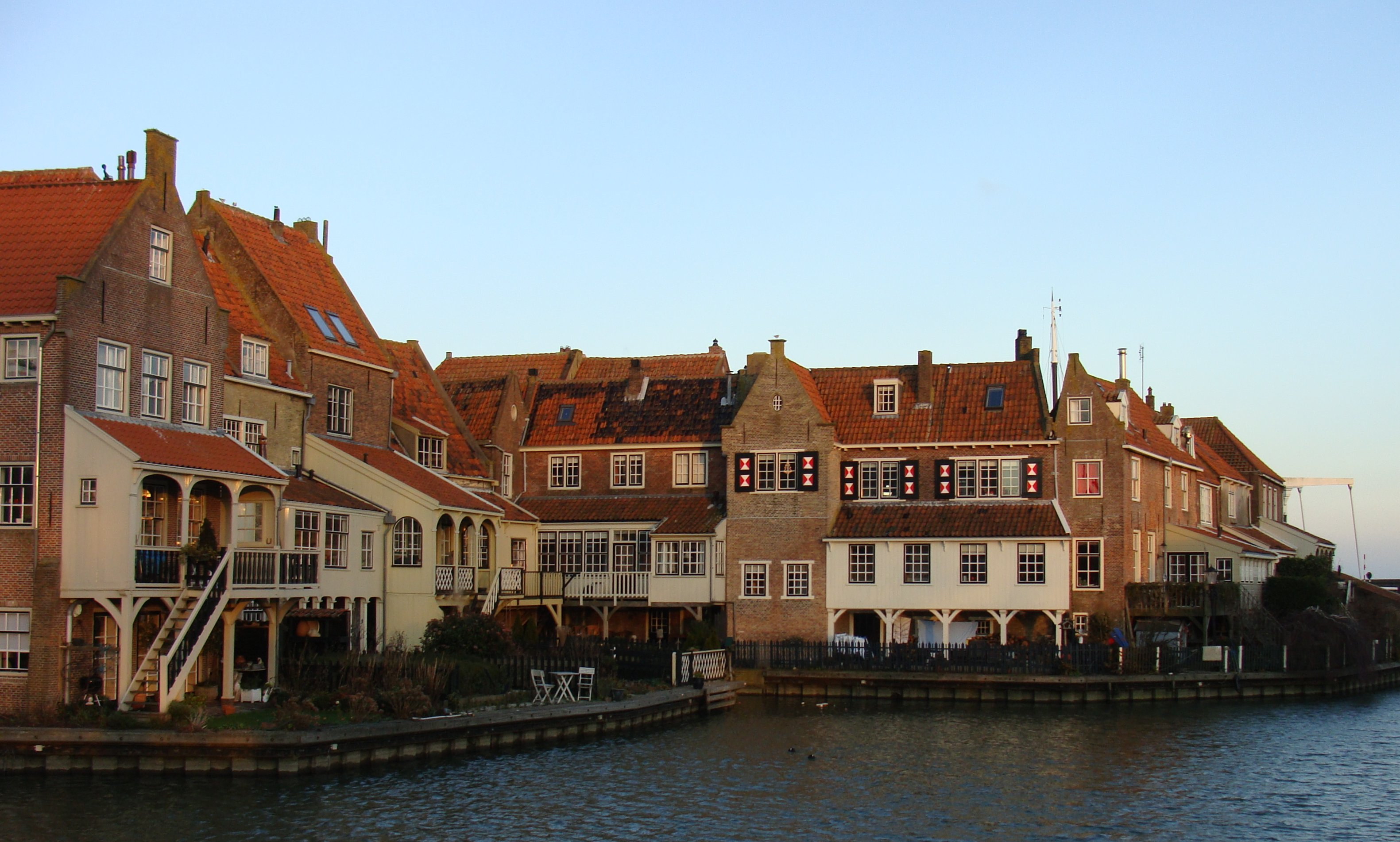 Rear side of the houses at de Bocht in Enkhuizen. The houses on the left are on the Zuiderspui